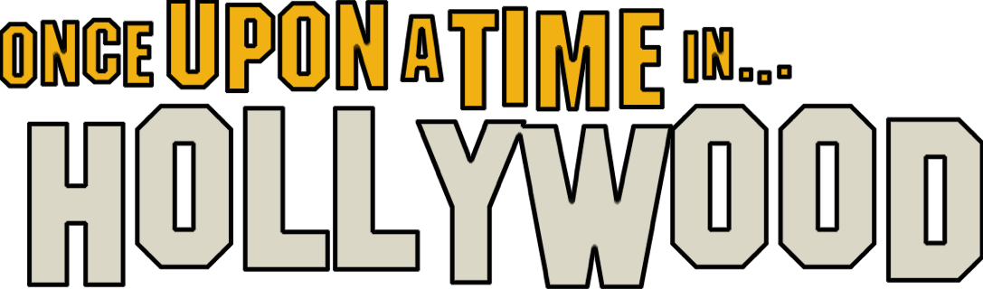 Logo for the 2019 film Once Upon a Time in Hollywood.